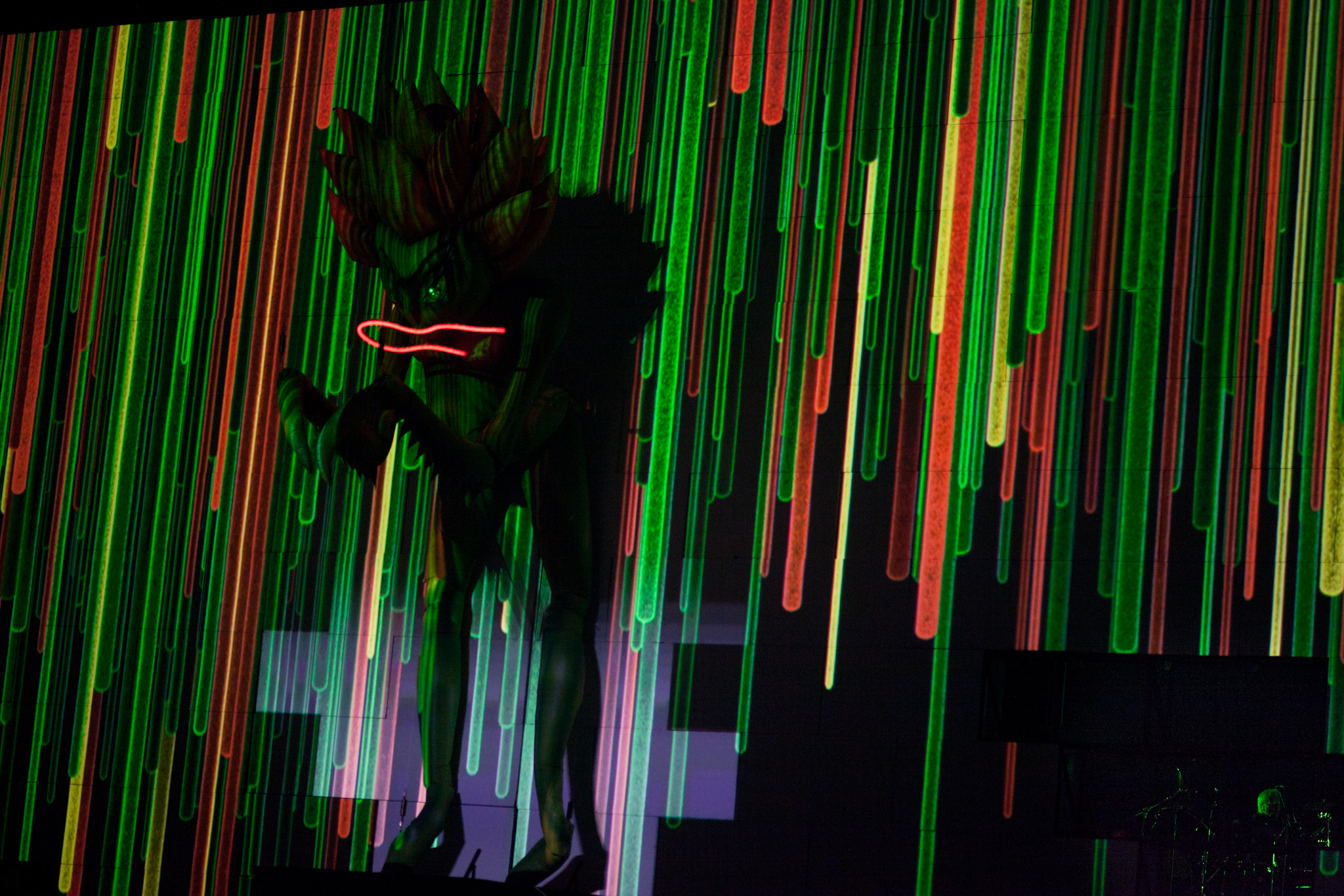 The Roger Waters Band, with, Kilminster, White, Joyce, Pat Lennon, Mark Lennon, Kip Lennon, Wyckoff, Smith, Harry Waters, Carin, and Broad. The Wall Live concert tour by Roger Waters, formerly of Pink Floyd, at BankAtlantic Center, Sunrise, Miami, Florida, June 15th, 2012. The tour is the first time the Pink Floyd album The Wall has been performed in its entirety by the band or any of its former members since Waters performed the album live in Berlin 21 July 1990. Ref: The Roger Waters Band, with, Kilminster, White, Joyce, Pat Lennon, Mark Lennon, Kip Lennon, Wyckoff, Smith, Harry Waters, Carin, and Broad. Songs:In the Flesh | The Thin Ice | Another Brick in the Wall (Part 1) | The Happiest Days of Our Lives | Another Brick in the Wall (Part 2) | Another Brick in the Wall (Part 2) Reprise The Ballad Of Jean Charles de Menezes. | Mother | Goodbye Blue Sky | Empty Spaces | What Shall We Do Now? | Young Lust | One of My Turns | Don't Leave Me Now | Another Brick in the Wall (Part 3) | The Last Few Bricks | Goodbye Cruel World | Hey You | Is There Anybody Out There? | Nobody Home | Vera | Bring the Boys Back Home | Comfortably Numb | The Show Must Go On | In the Flesh | Run Like Hell | Waiting for the Worms | Stop | The Trial | Outside the Wall Camera: Canon EOS 5D Mark II Lens: Zeiss Makro-Planar T* 2/100 ZE 0 ISO: 800